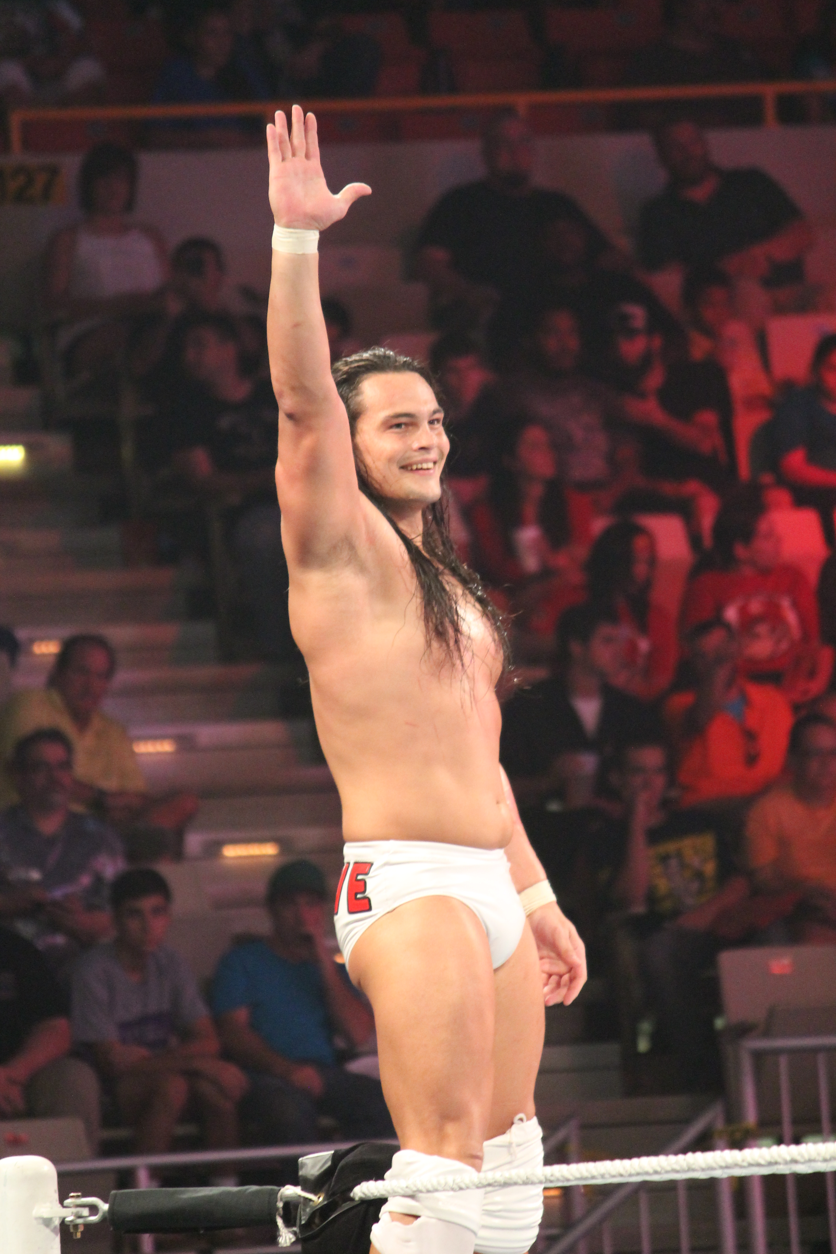 Bo Dallas at a SmackDown / Main Event in Septembr 2014.